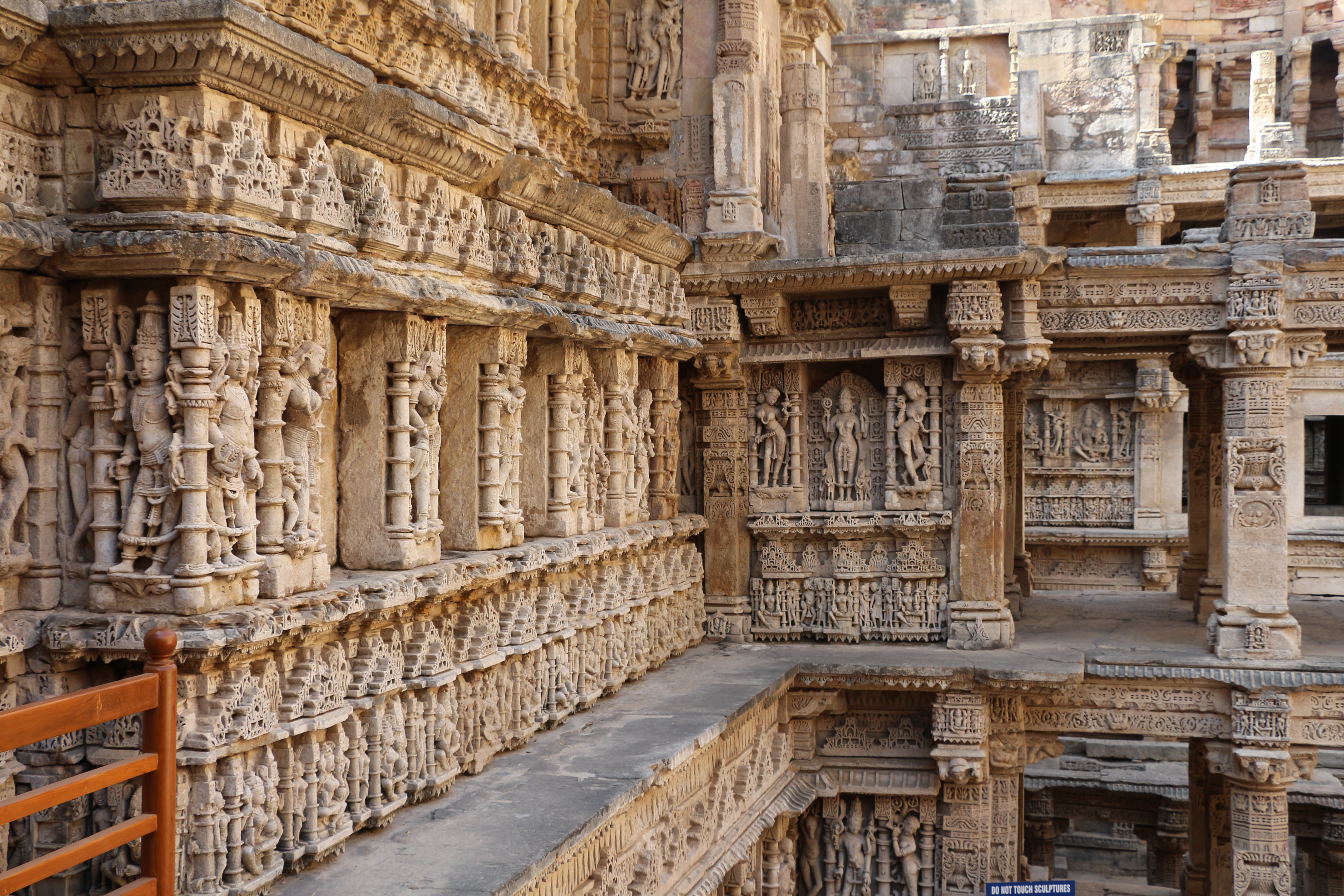 Rani ki vav, Patan, India